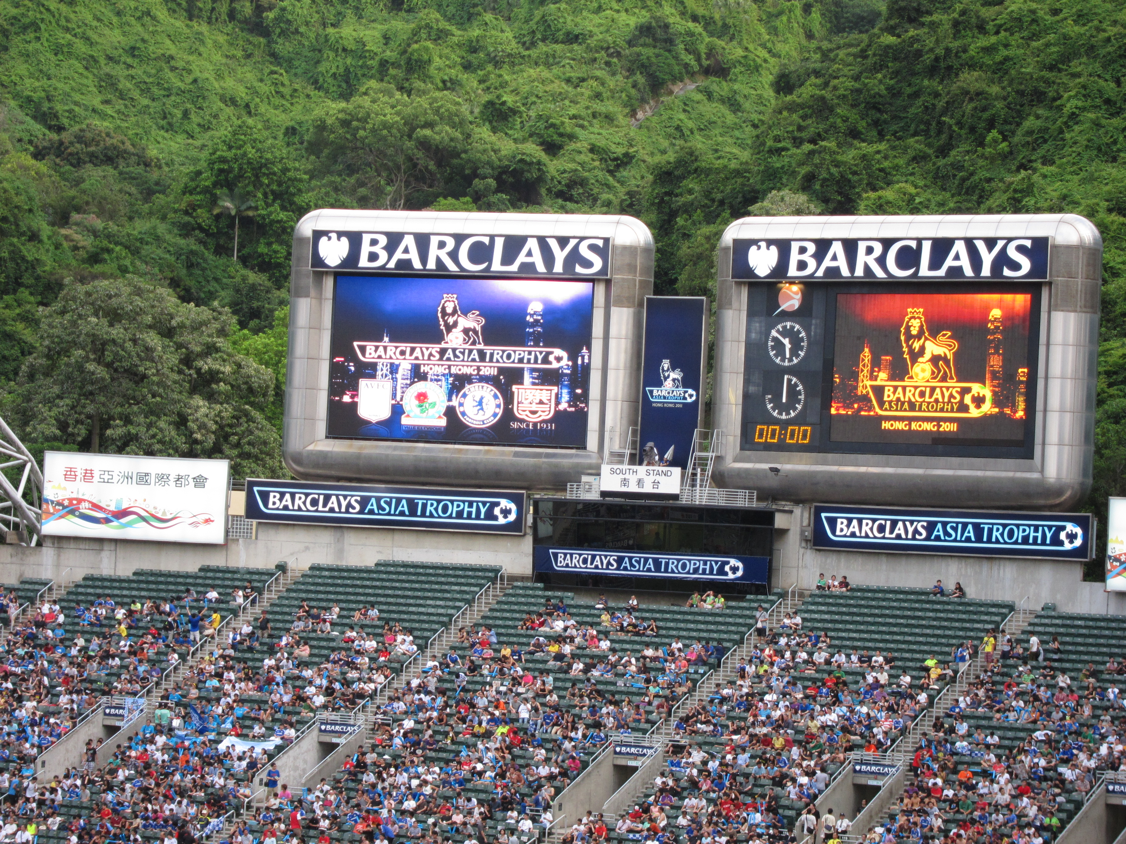 2011 Barclays Asia Trophy. 中文（香港）: 2011年巴克萊亞洲錦標賽